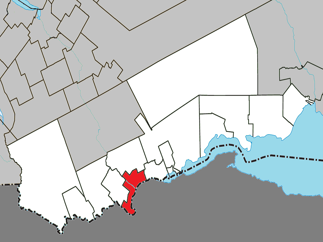 Location of Matapédia, Quebec within Avignon Regional County Municipality.